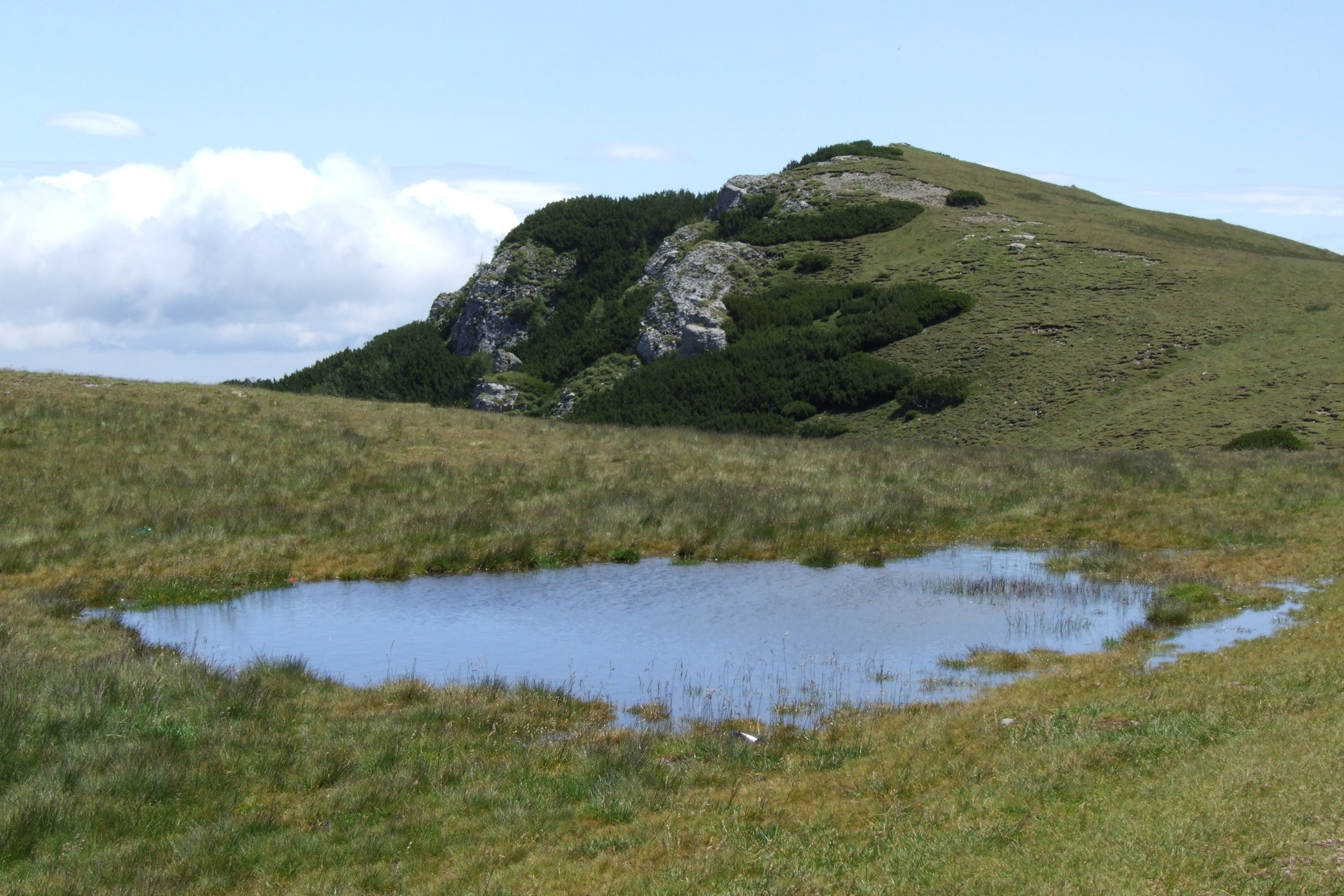 Bucegi mountains, Romania